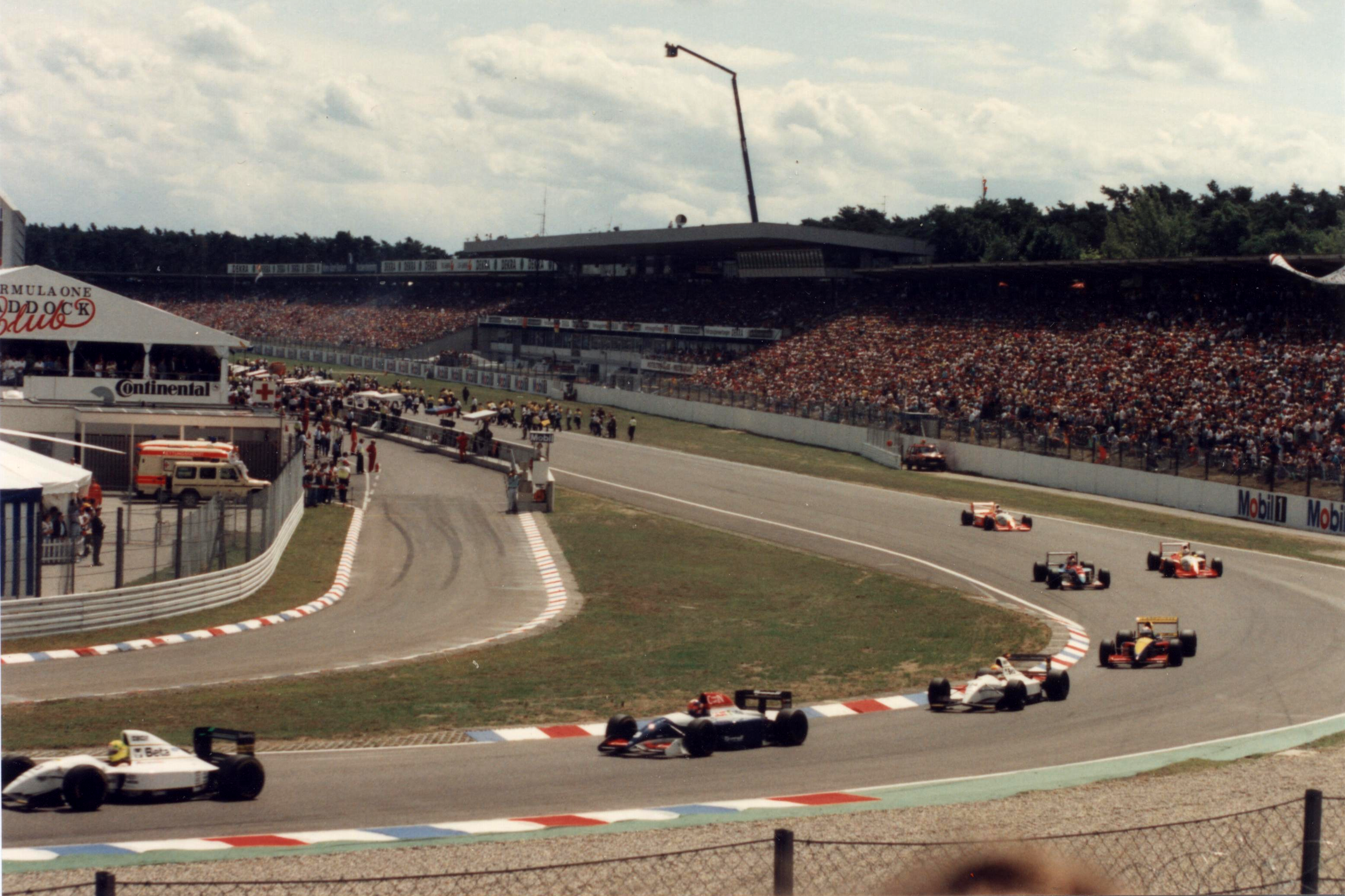 1993 German F1 GP